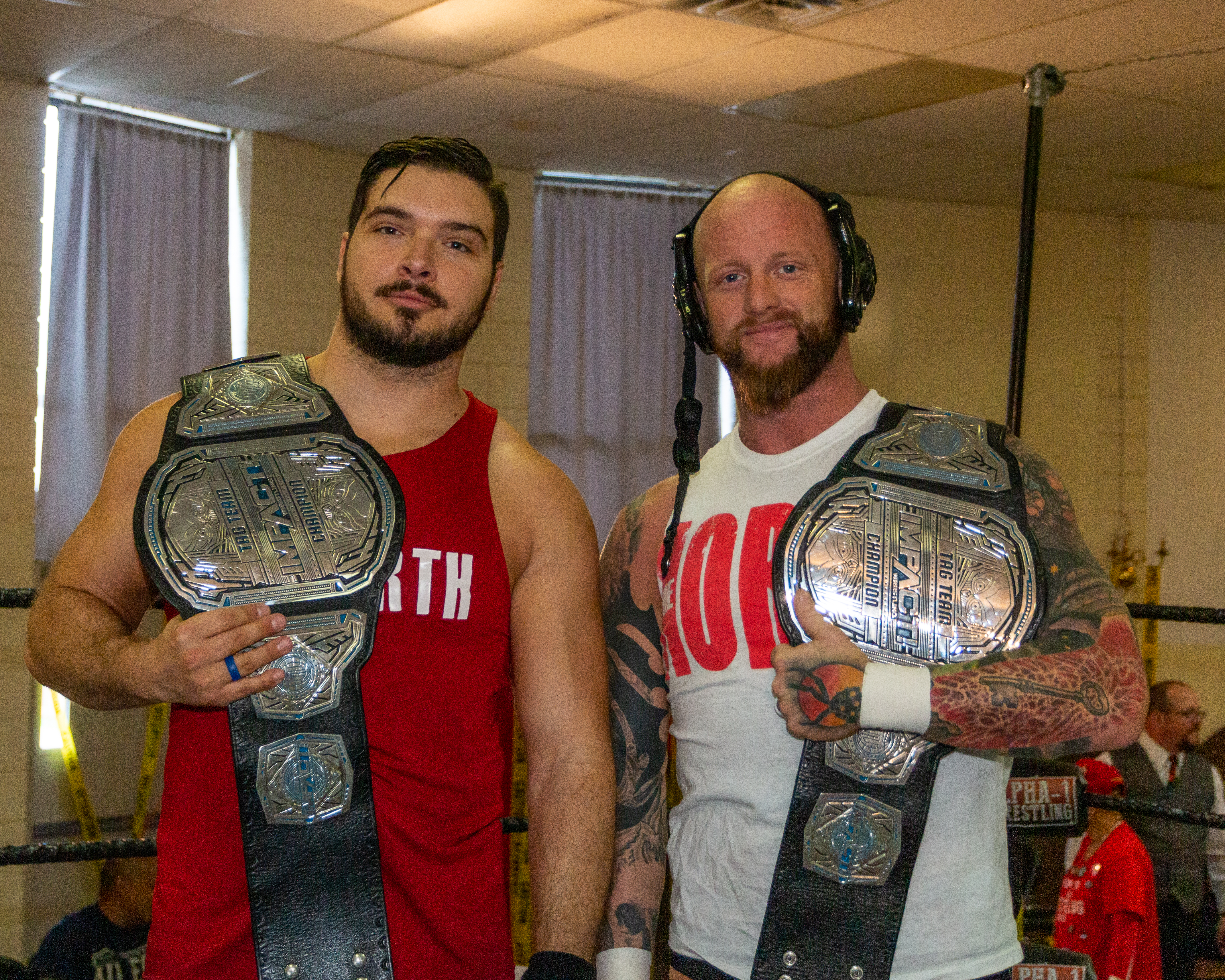 Impact World Tag Team champions The North - Ethan Page (left) and Josh Alexander - posing with the championship belts pre-show at an Alpha-1 Wrestling event in Hamilton, ON